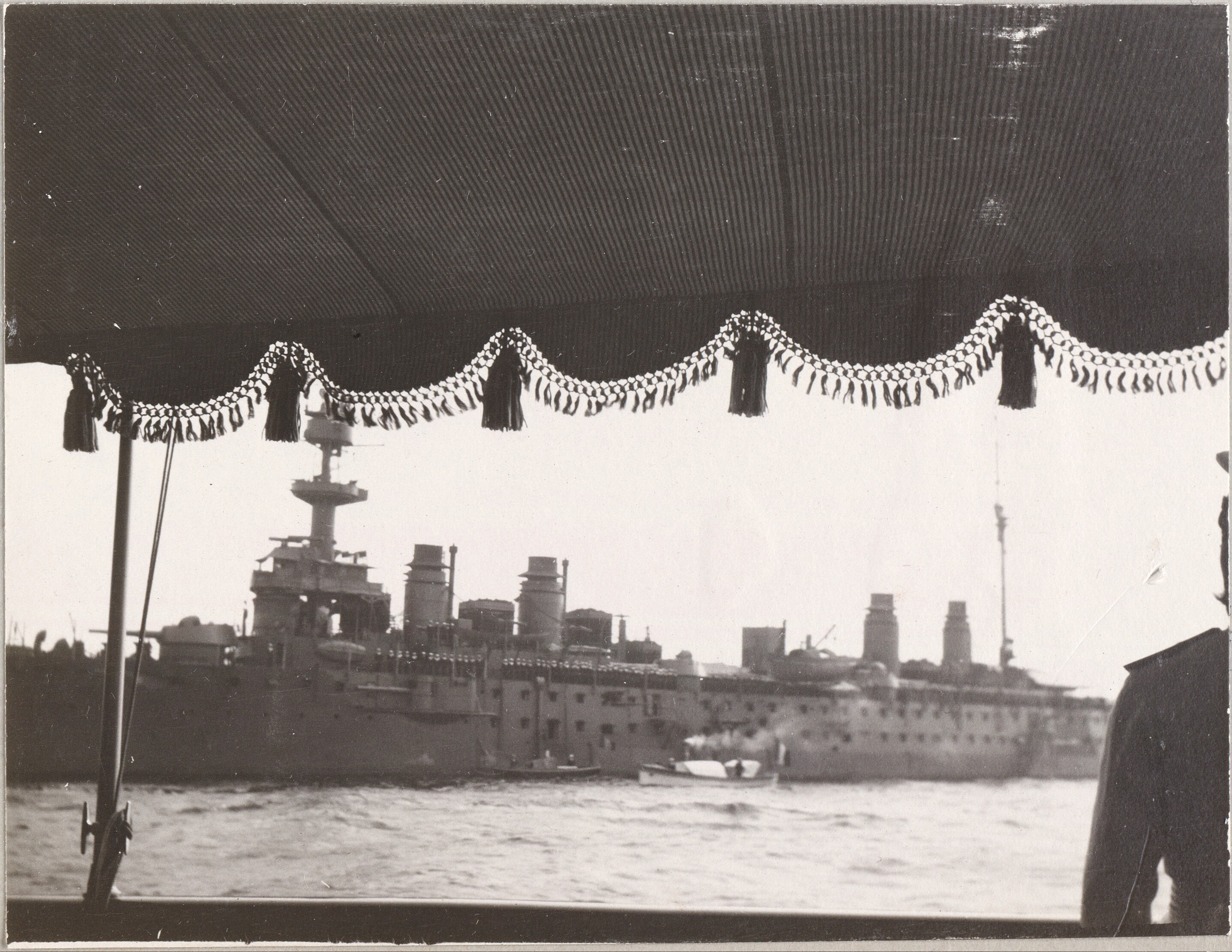 A Gloire class cruiser, seen from the Russian imperial yacht Standart The ship is probably the French cruiser Condé, which visited Kronstadt in July 1912 with Prime Minister Poincare.[1]